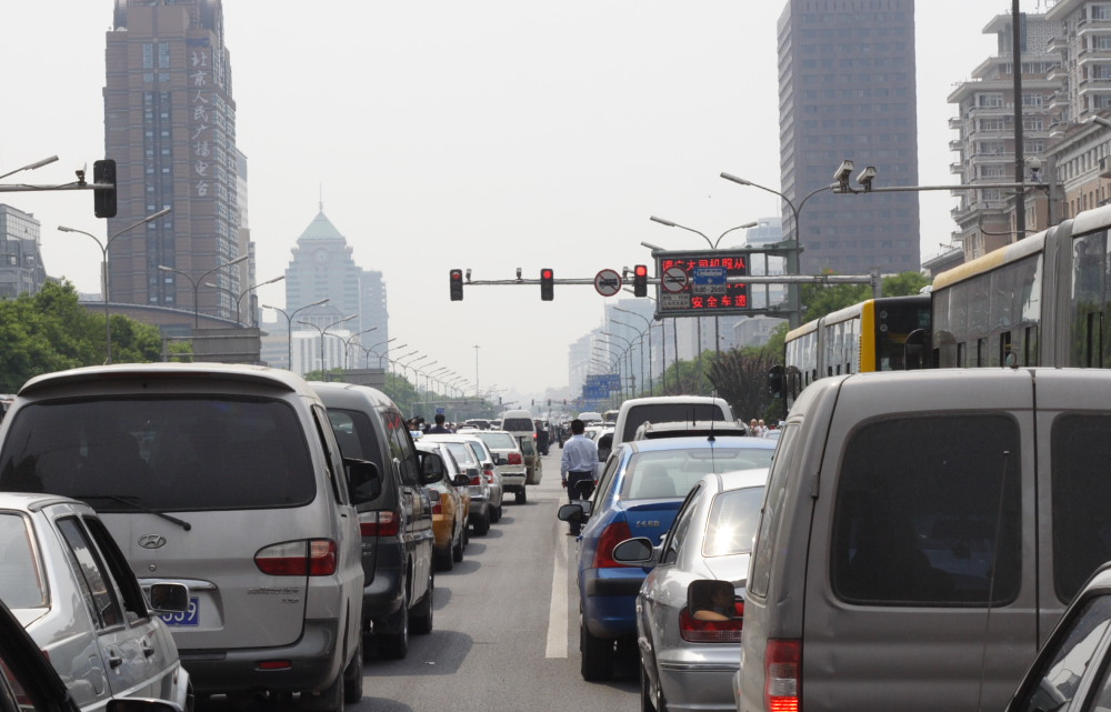 Chinese drivers stand in silence as they mourn at Chang'an Avenue, Beijing, China./在北京长安街，全体车辆停止行驶，鸣笛默哀。不少司机下车肃立